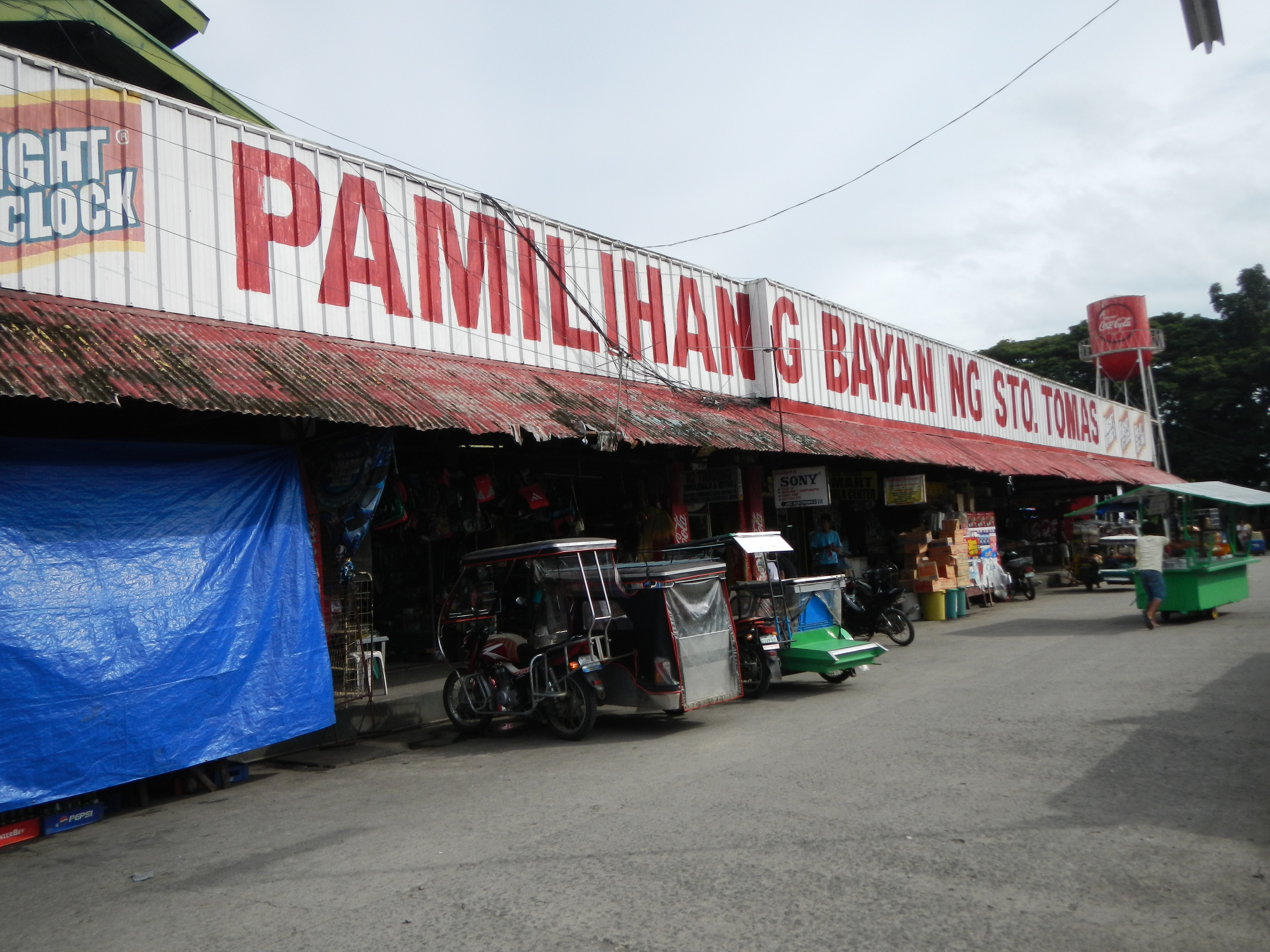 Public Market, Foot Bridge and Mount Makiling[1] as seen from the -- Maharlika Highway, (Pan-Philippine Highway[2]( The Pan-Philippine Highway, also known as the Maharlika "Nobility/Free People") --- Barangay San Antonio, Santo Tomas, Batangas[3] Website --- Santo Tomas (also spelled as Sto. Tomas) is a first class municipality in the province of Batangas,[4] Philippines. According to the 2010 census, it has a population of 123,668 people. The town is a gateway to the province from Laguna. This is also the hometown of Philippine Revolution and Philippine-American War hero Miguel Malvar.[5] The patron of Santo Tomas is Saint Thomas Aquinas,[6] patron of Catholic schools celebrates his feast day every 7 March.Election Results 2013 Santo Tomas mayoral bet Edna Sanchez accused of vote-buying [7] Coordinates: 14°3'44"N 121°10'24"E Geographical location: Batangas, Region 4, Philippines, Asia Geographical coordinates: 14° 6' 33" North, 121° 8' 31" East This place is situated in Batangas, Region 4, Philippines, its geographical coordinates are 14° 6' 33" North, 121° 8' 31" East and its original name (with diacritics) is Santo Tomas. [8]